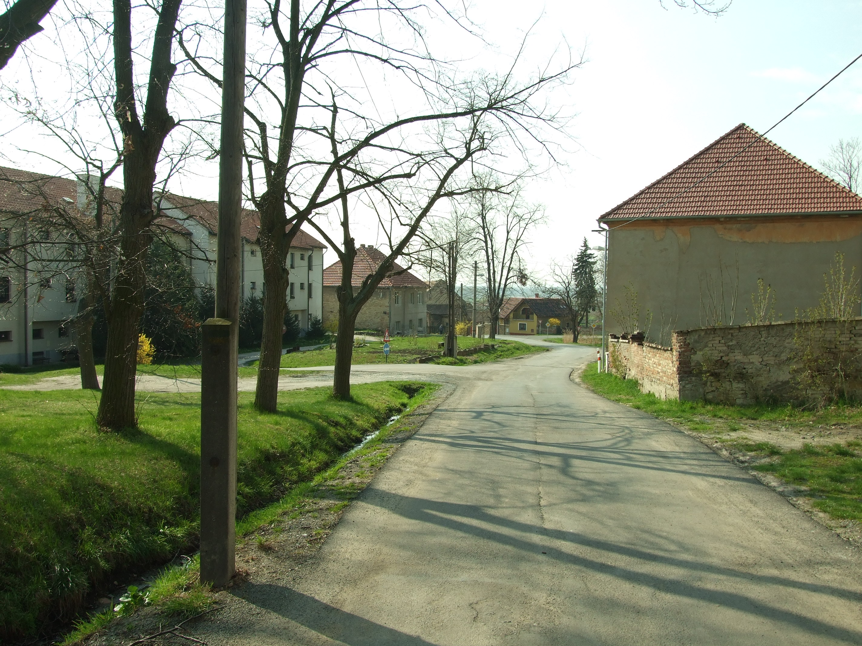 Common in Kly-Záboří, Mělník District, Central Bohemian Region, CZ